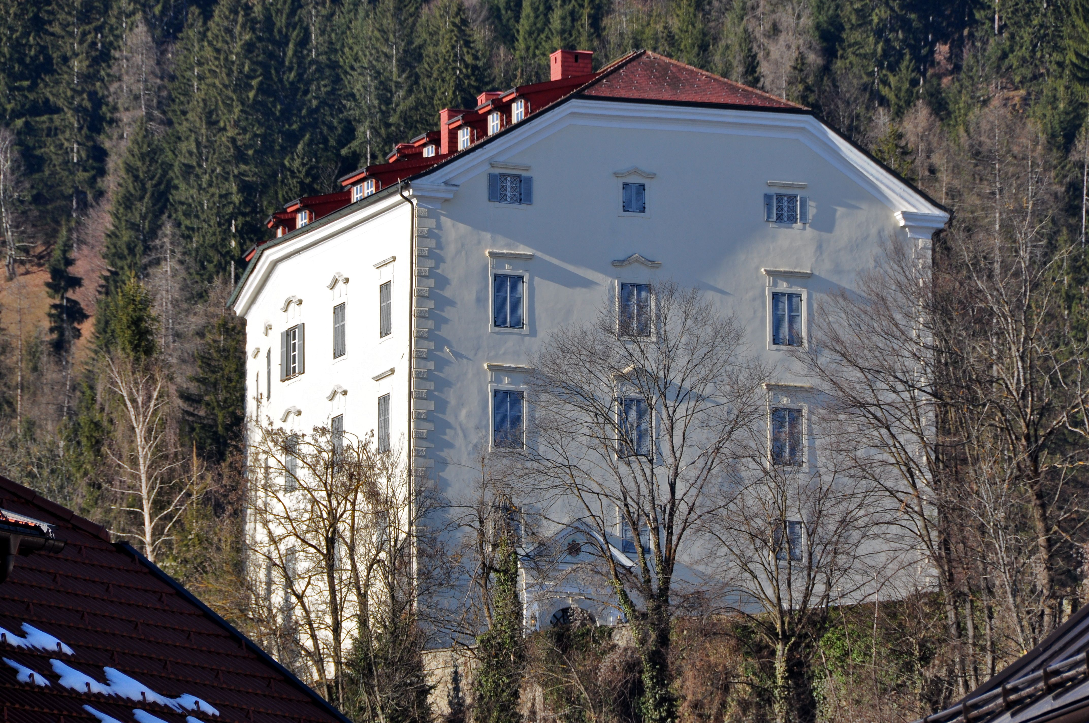 Castle Greifenburg on the Gnoppnitzstrasse #1 in Greifenburg, municipality Greifenburg, district Spittal an der Drau, state Carinthia / Austria / EU